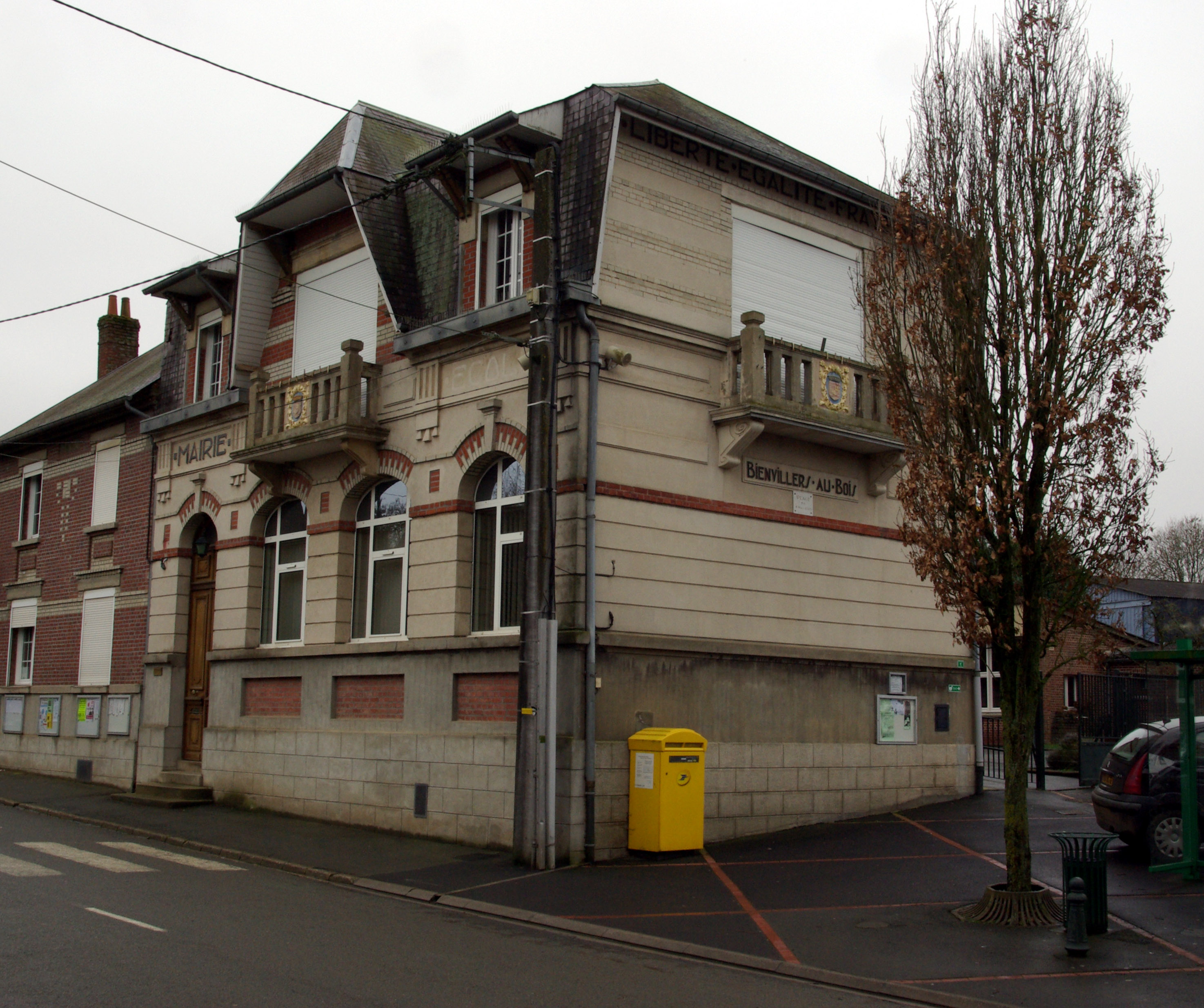 City Hall of Bienvillers-au-Bois